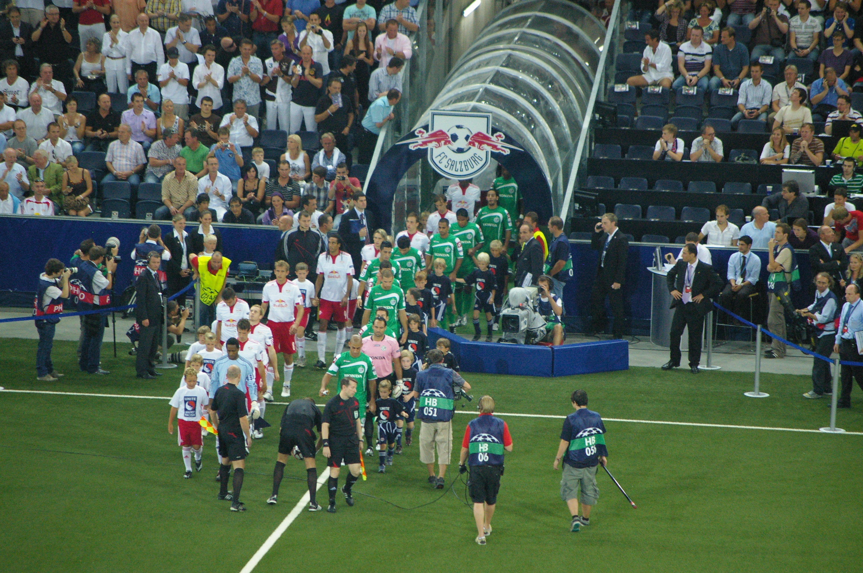 FC Salzburg-Maccabi Haifa